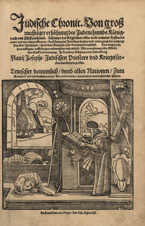 Title page with (fantasy) author's portrait.